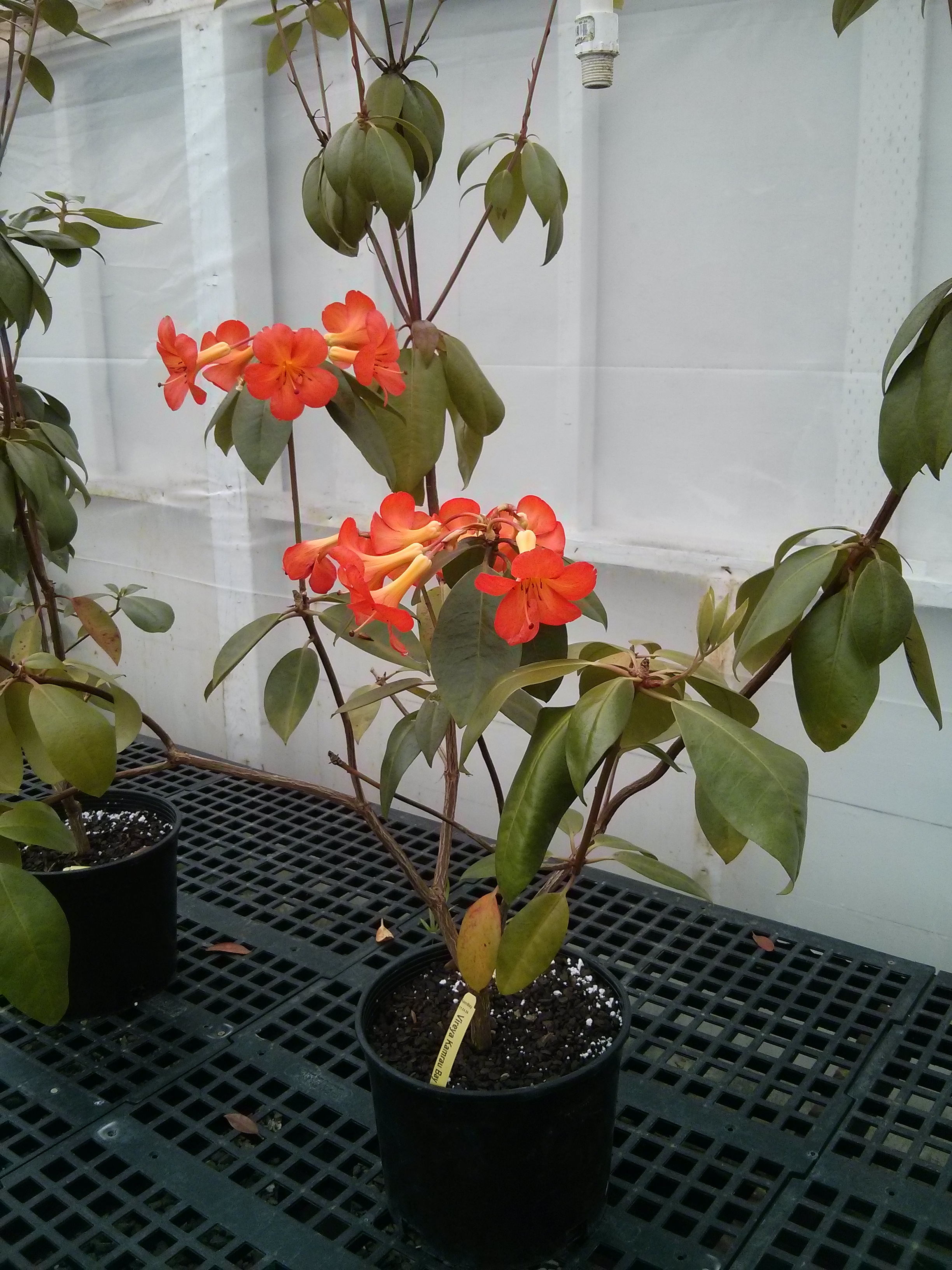 In cultivation in a greenhouse in San Francisco, California